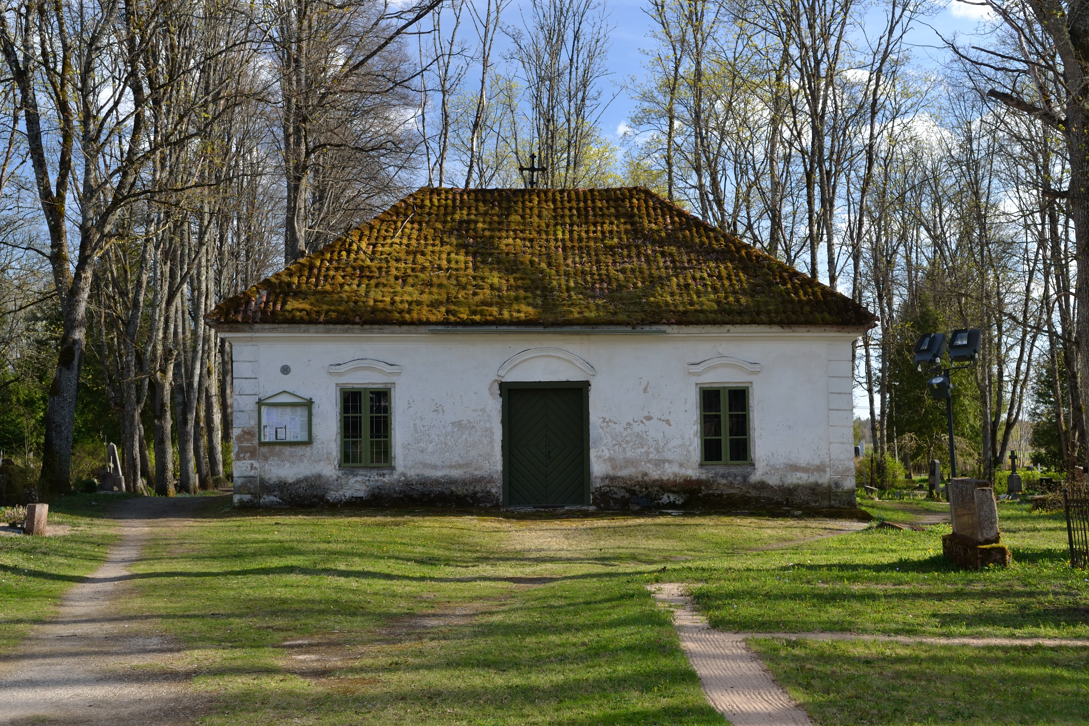 Ambla churchyard chapel